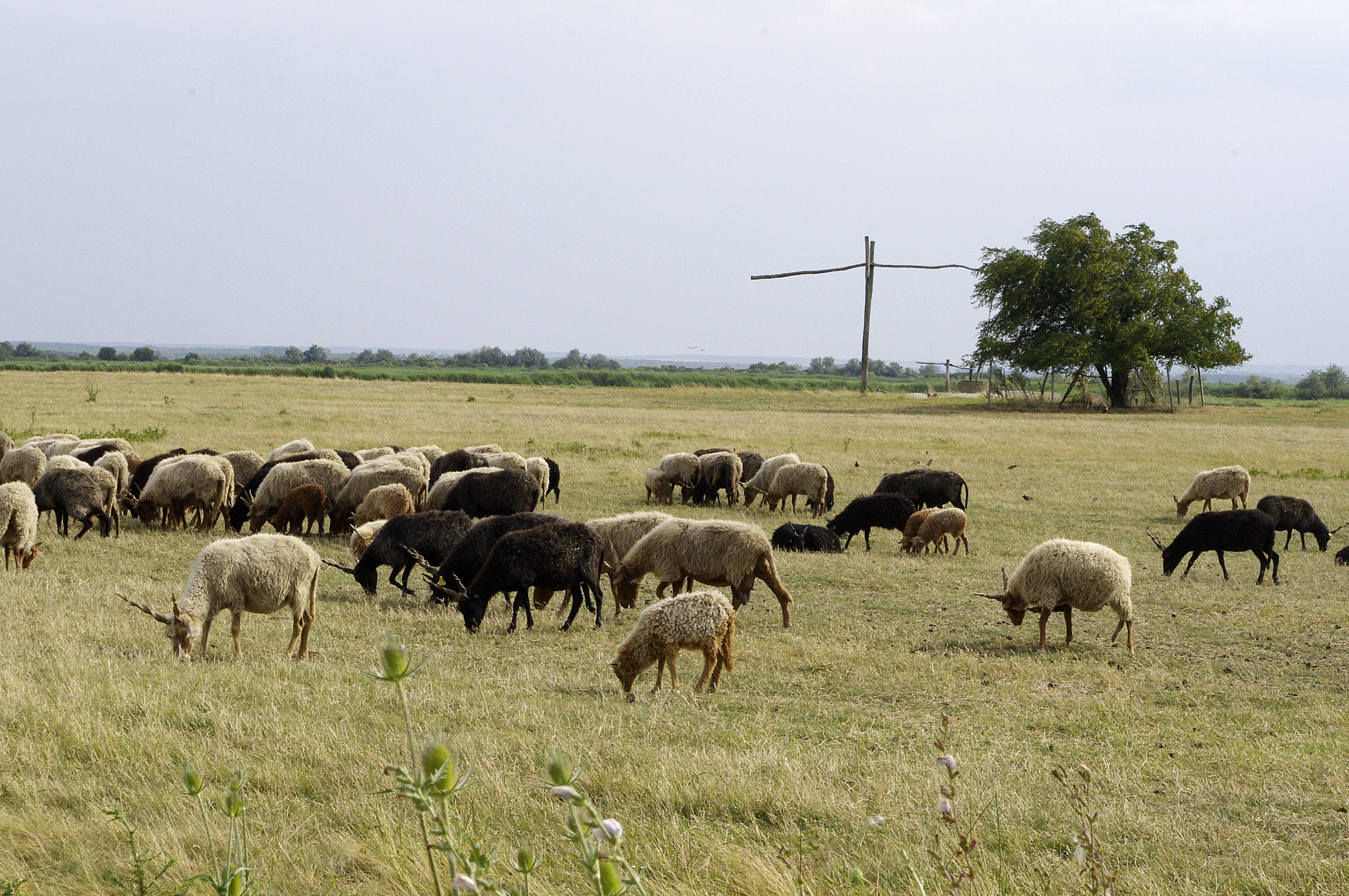 Fertő-Hanság national parc, Hungary - hungarian Zackel sheep(Ovis aries strepsiceros Hungaricus)